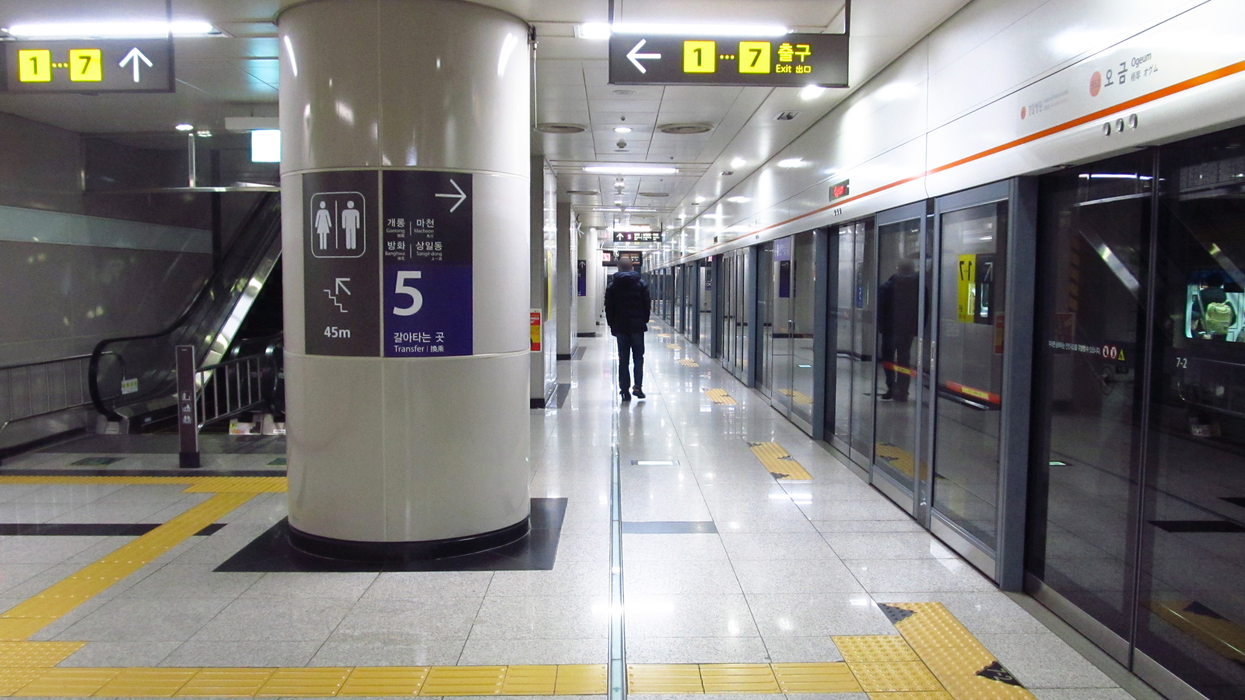 The platform at Ogeum Station on Seoul Subway Line 3 in Songpa-gu, Seoul, Republic of Korea(South Korea)